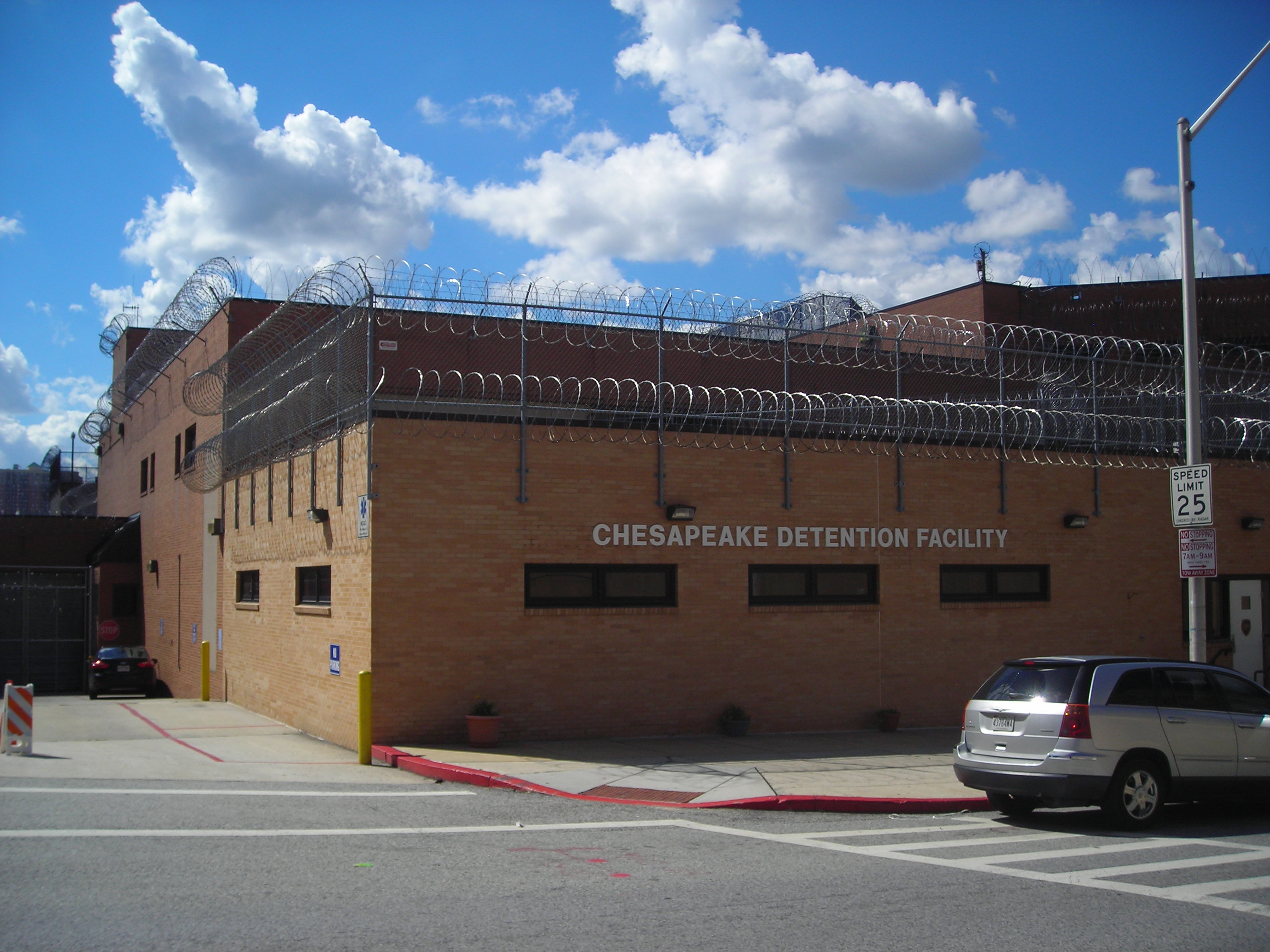 Looking south across Madison St. in Baltimore at the Chesapeake Detention Facility, formerly the Maryland Correctional Adjustment Center.